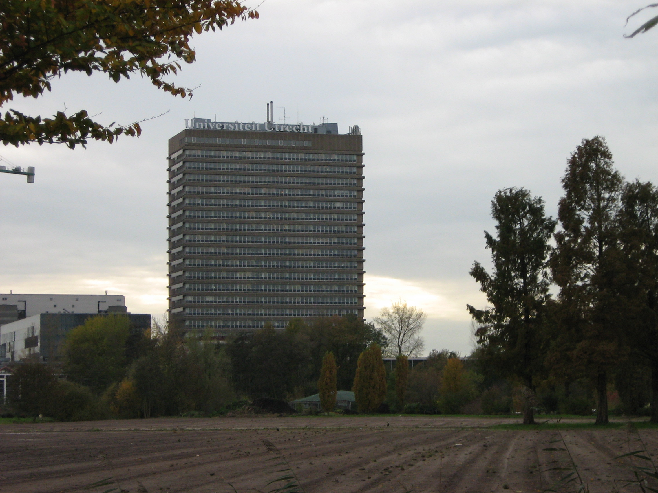 University of Utrecht Trans 2 building, now known as Willem C. van Unnik building.